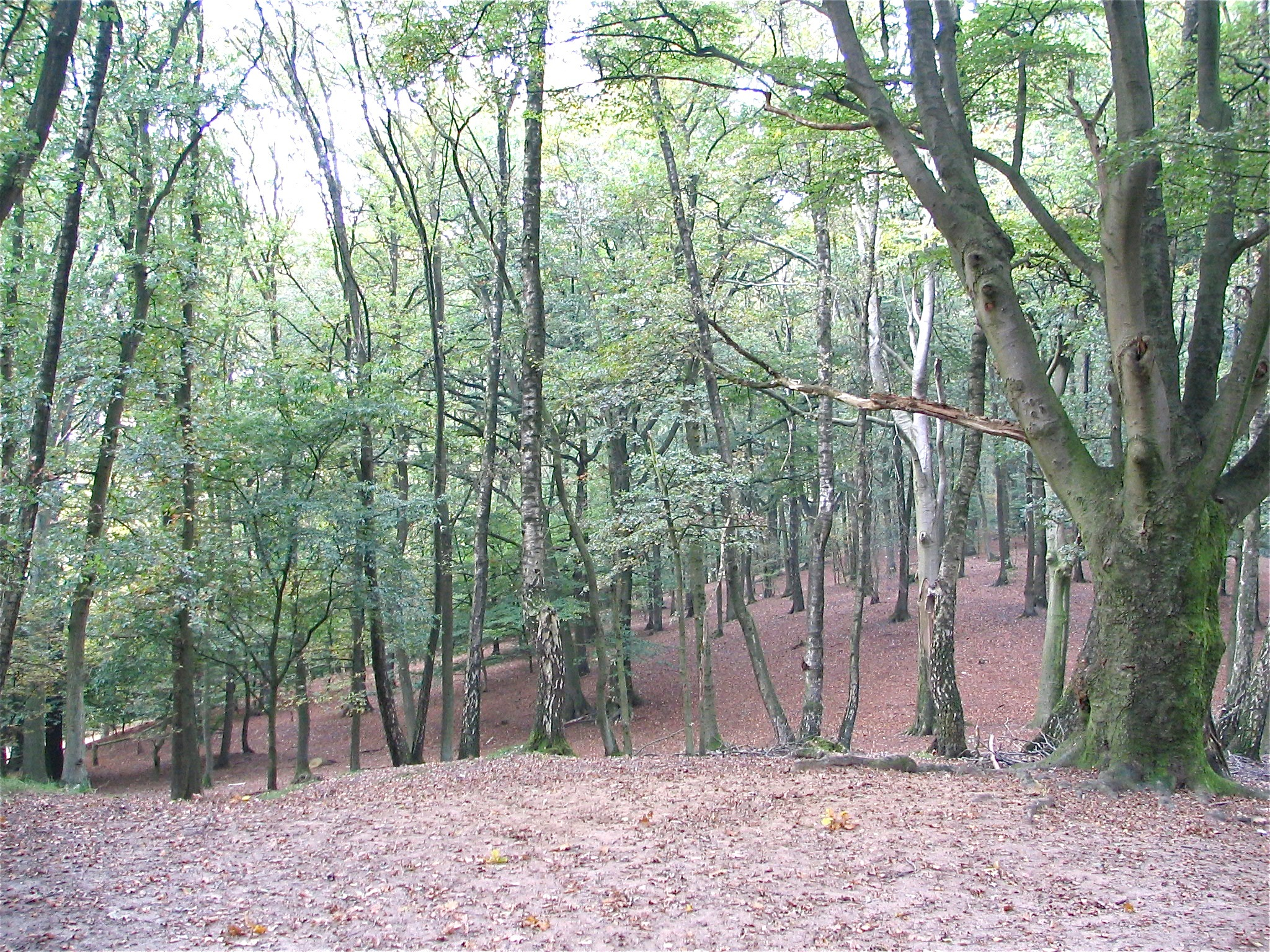 The Paasberg (Easter Mountain), nature reserve / hill in Terborg (province of Gelderland, The Netherlands). The top of the hill (2007).